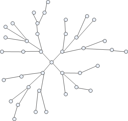 A generic daigram of a 'tree' or 'hierarchical' computer network, with radial layout.